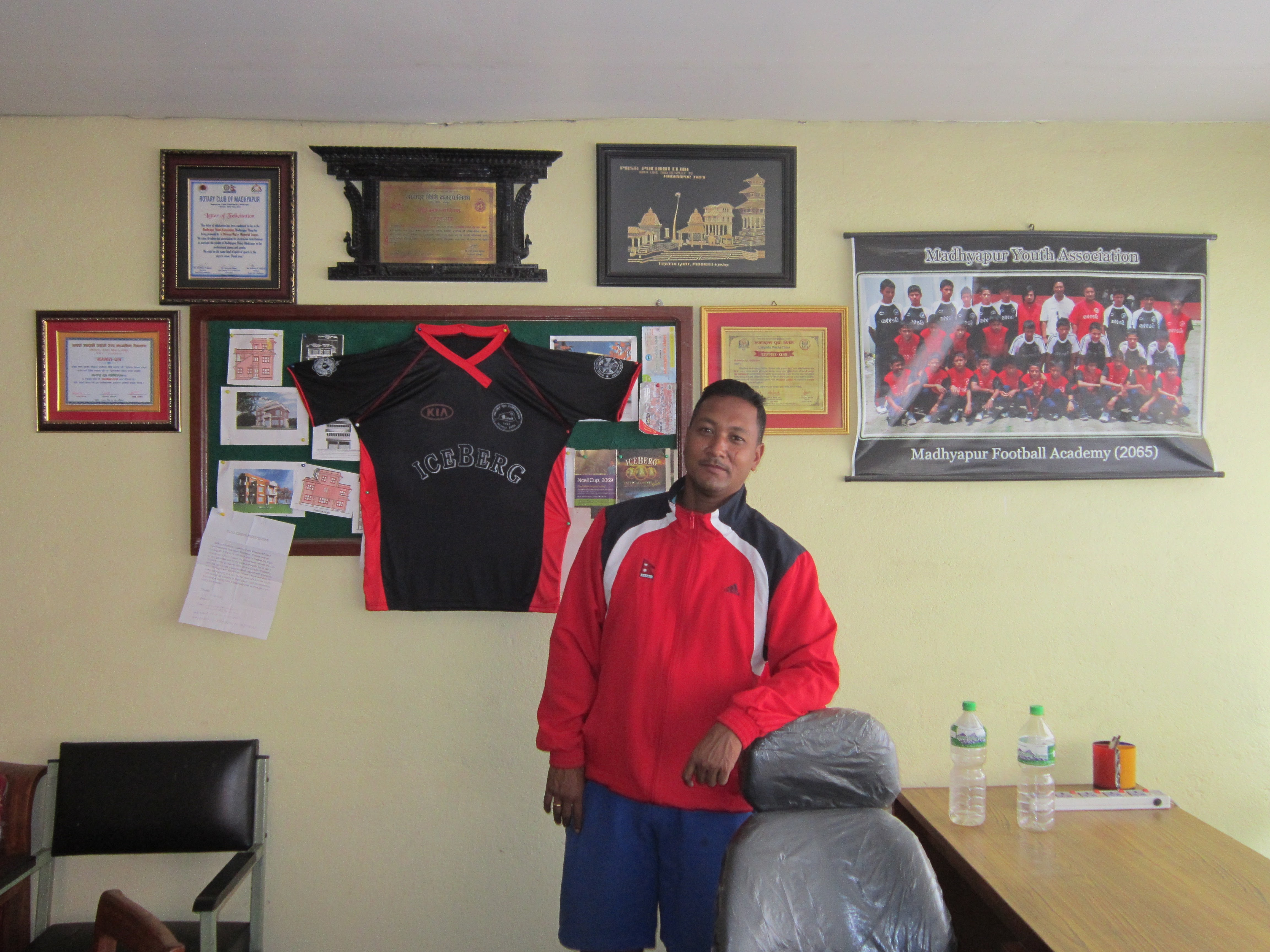 Upendra Man Singh in his office .